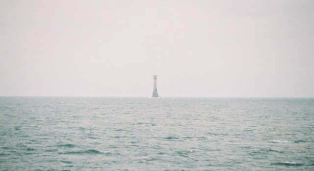 7 miles from the nearest land... Wolf Rock lighthouse, 7 miles off Cornwall, taken from the Scilly ferry.